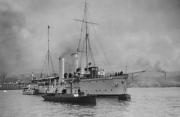 Austro-Hungarian yacht (SMS Lacroma) - copyright expired